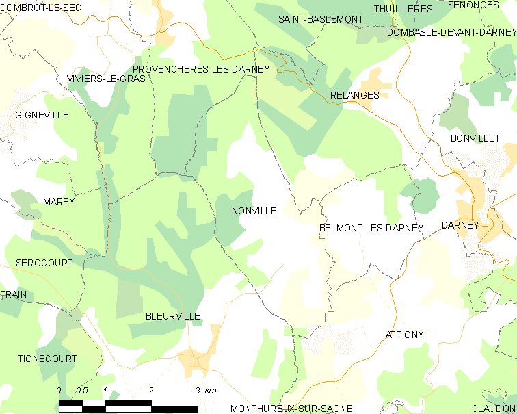 Map of French municipality Nonville